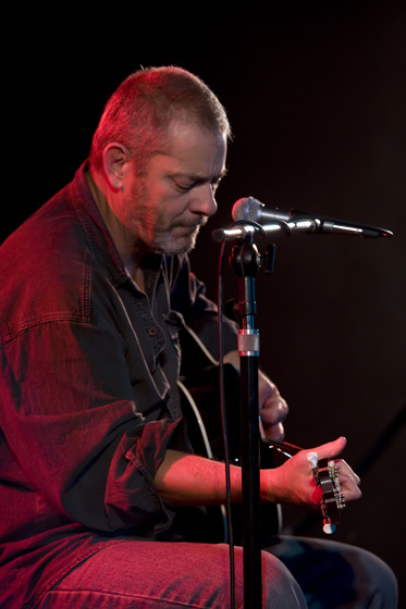 Chris Wilson East Brunswick Social Club, Melbourne, April 2008 See the full gallery - [1]